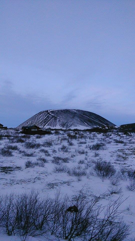 Le volcan Grabrok depuis l'Université de Bifröst